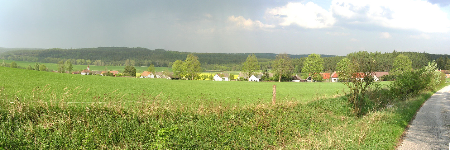 Český Rudolec-Nová Ves, South Bohemian Region, the Czech Republic.